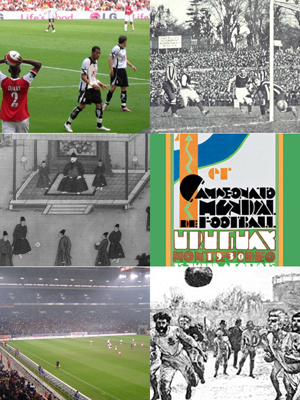 Combination of Abou Diaby.jpg, FACupFinal1905NewcastleVilla.jpg, Ming-Emperor3.jpg, Uruguay 1930 Worl Cup.jpg, Arena auf schalke gelsenkirchen germany.JPG and Fußballgeschichte (1872).jpg